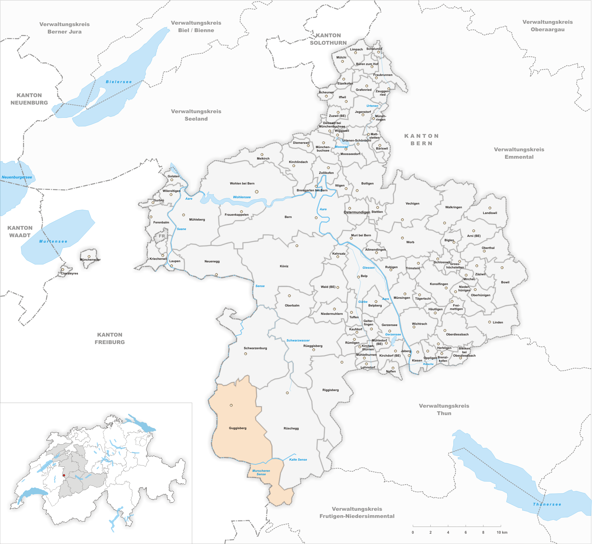 Municipality Guggisberg